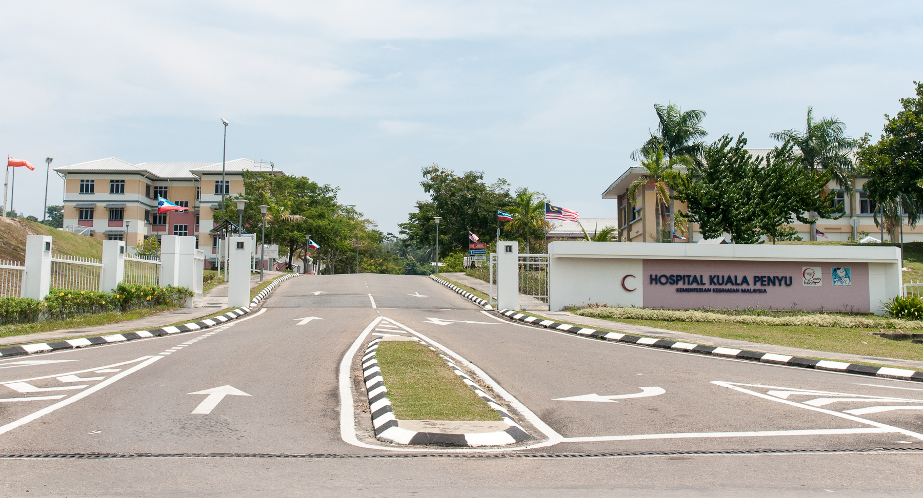 Kuala Penyu; Hospital)